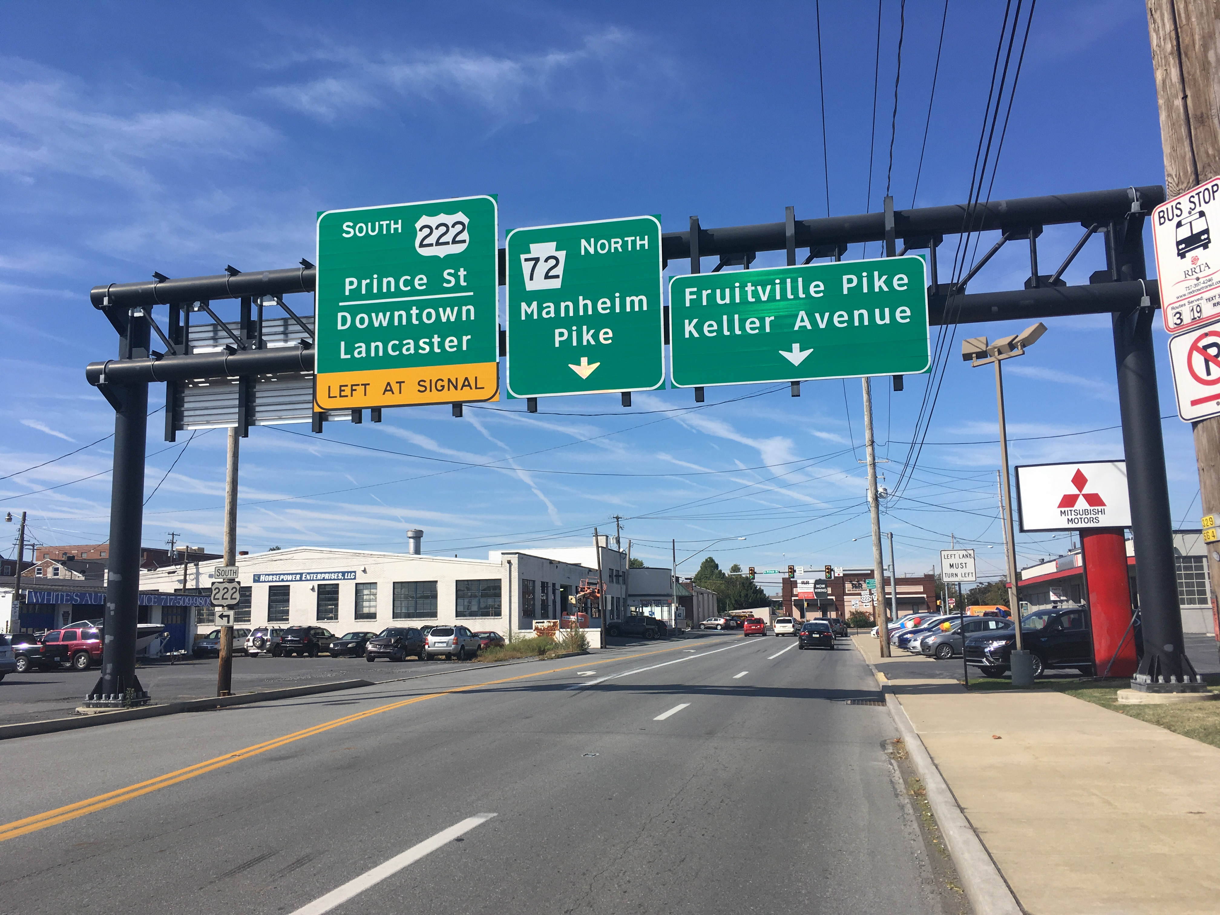 Southbound U.S. Route 222/Pennsylvania Route 272/northbound Pennsylvania Route 72 (McGovern Avenue) approaching the intersection with Prince Street in Lancaster, Pennsylvania, where U.S. Route 222/Pennsylvania Route 272 turns south and Pennsylvania Route 72 turns north